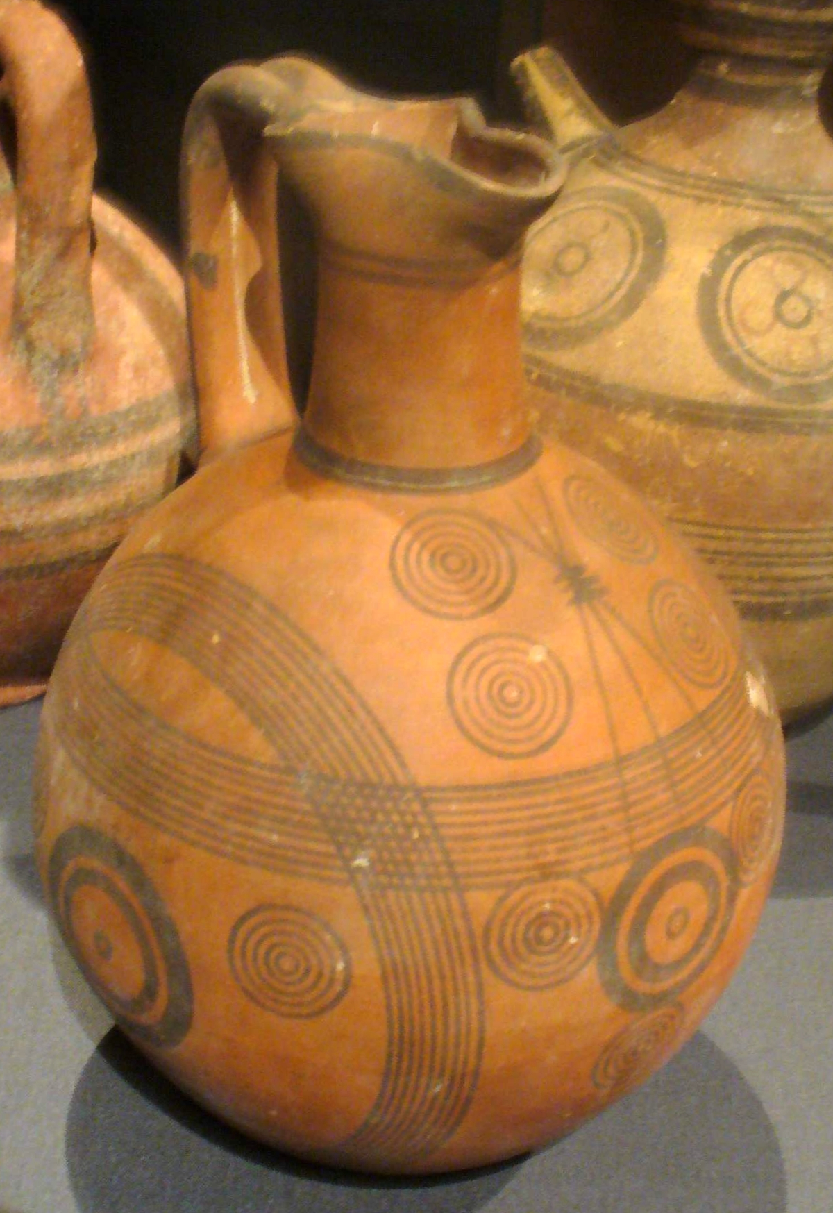 Cypriotic Black on Red ware; Kunsthistorisches Museum at Vienna